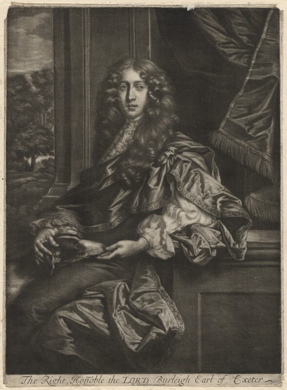 John Cecil, 5th Earl of Exeter (c1648-1700)